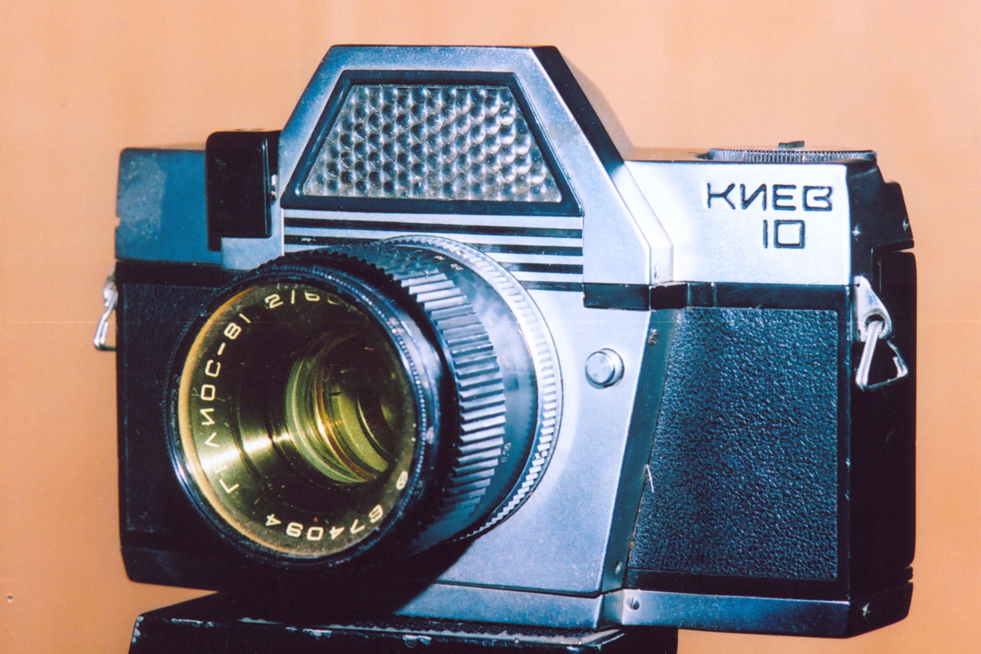 Kiev 10